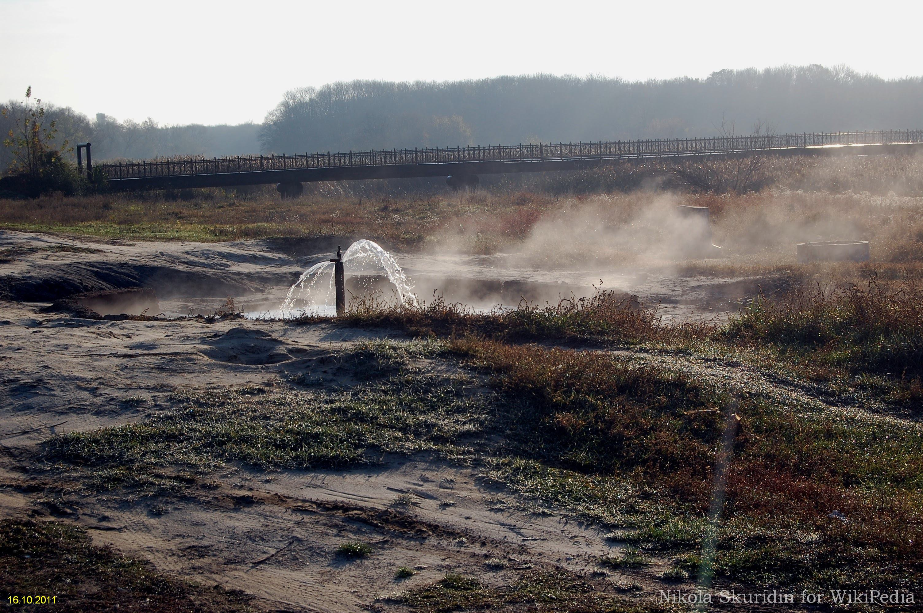 Thermal mineral water source "Solionka" in Novopskov town, Luhansk oblast, Ukraine.